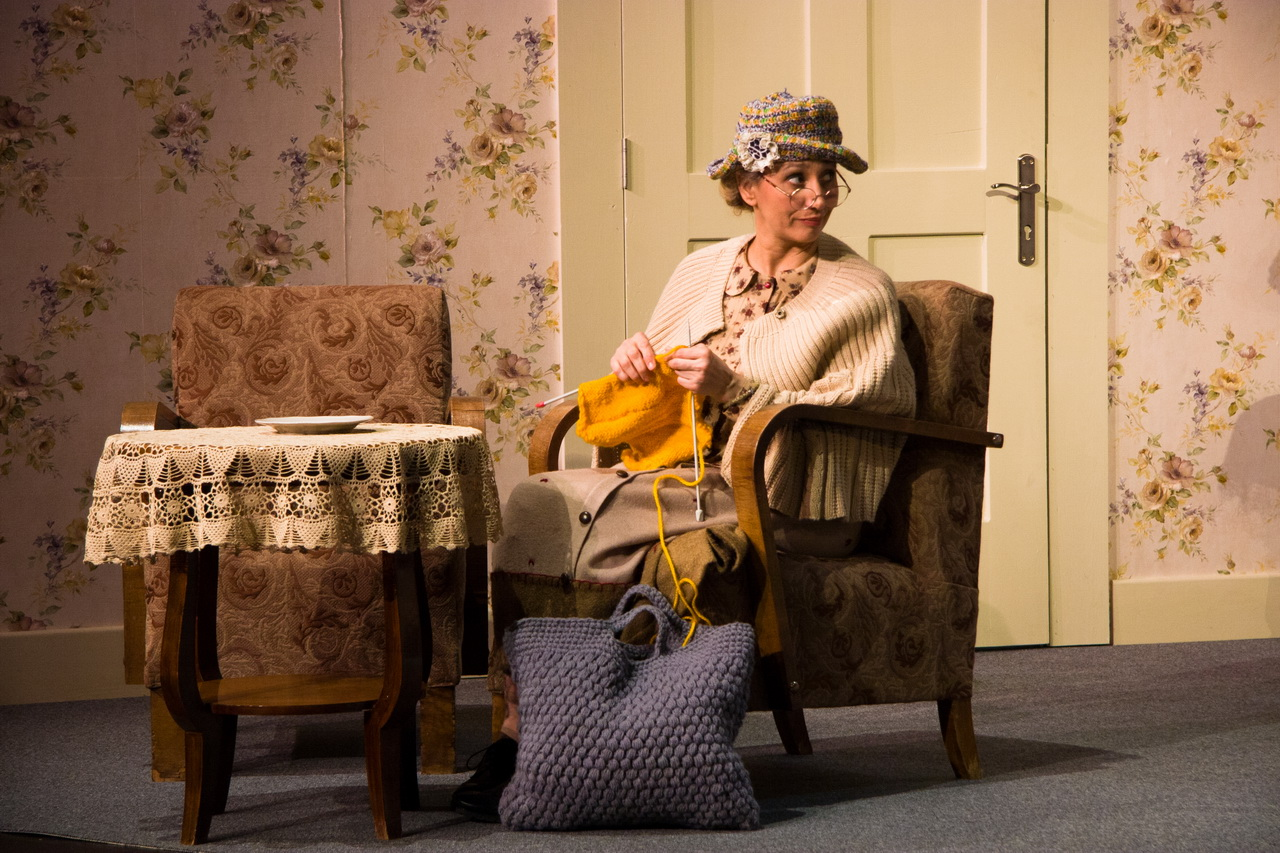 A Murder is Announced by Agatha Christie, dramaturg Svetislav Jovanov; directed by Ksenija Krnajski; Drama of the Serbian National Theatre, Novi Sad, 2011/12; Gordana Đurđević Dimić Srpski (latinica): "Najavljeno ubistvo" Agate Kristi, dramaturg Svetislav Jovanov; režija Ksenija Krnajski, Drama Srpskog narodnog pozorišta, Novi Sad, 2011/12; Gordana Đurđević Dimić Српски (ћирилица): "Најављено убиство" Агате Кристи, драматург Светислав Јованов; режија Ксенија Крнајски, Драма Српског народног позоришта, Нови Сад, 2011/12; Гордана Ђурђевић Димић